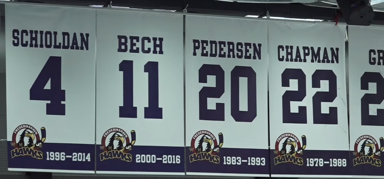 Shirts above the ice rink in Frederikshavn